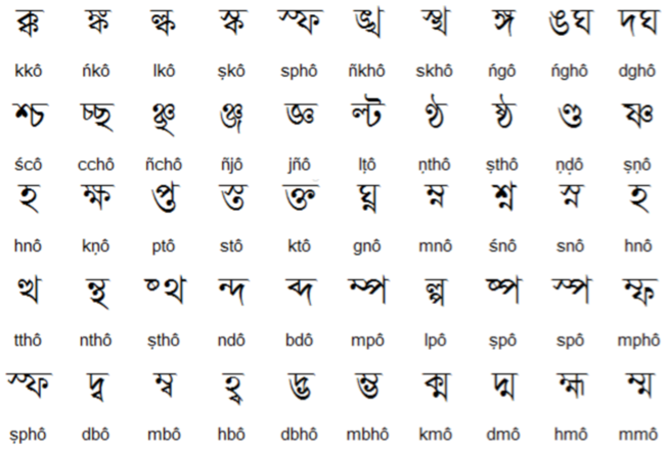 Asamiya Consonant Conjuncts